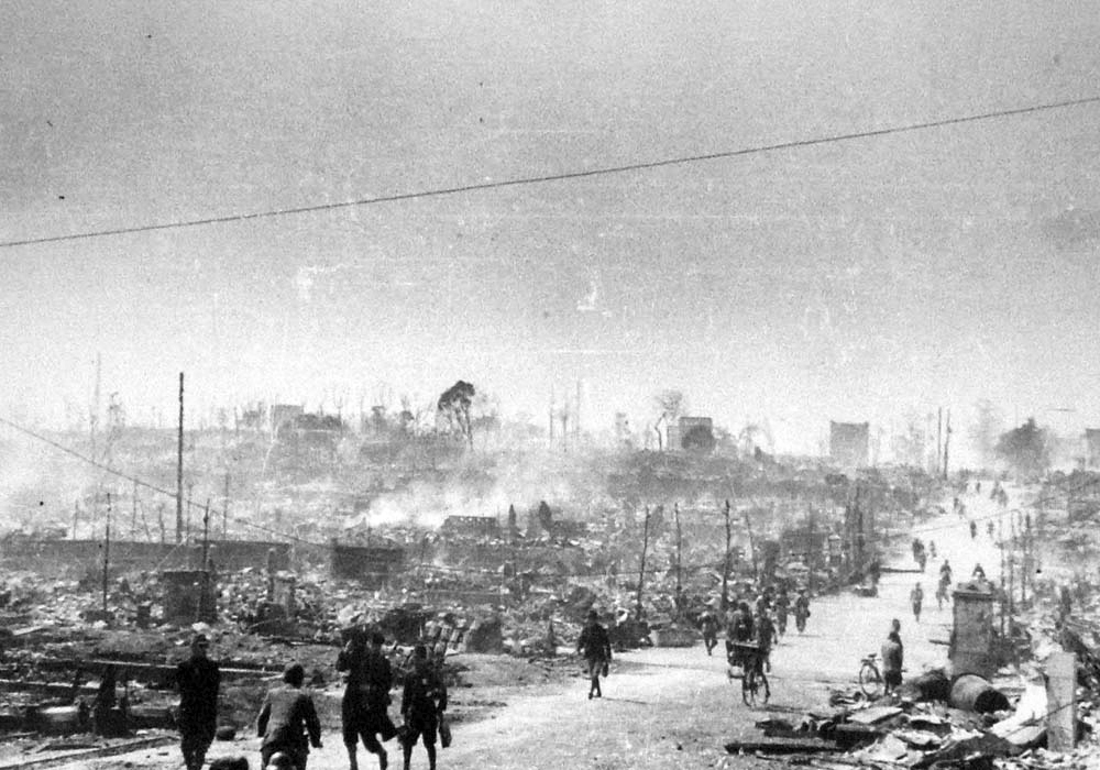 Photo taken by Ishikawa Kōyō(1904-1989) around 10 March, 1945.